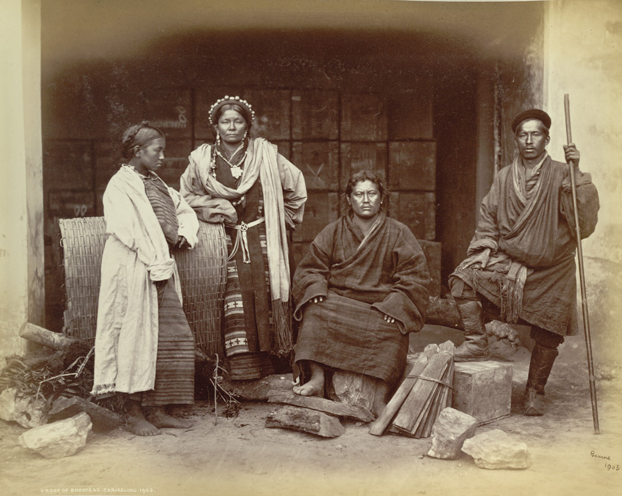 Two Bhutia couples at Darjeeling in 1865